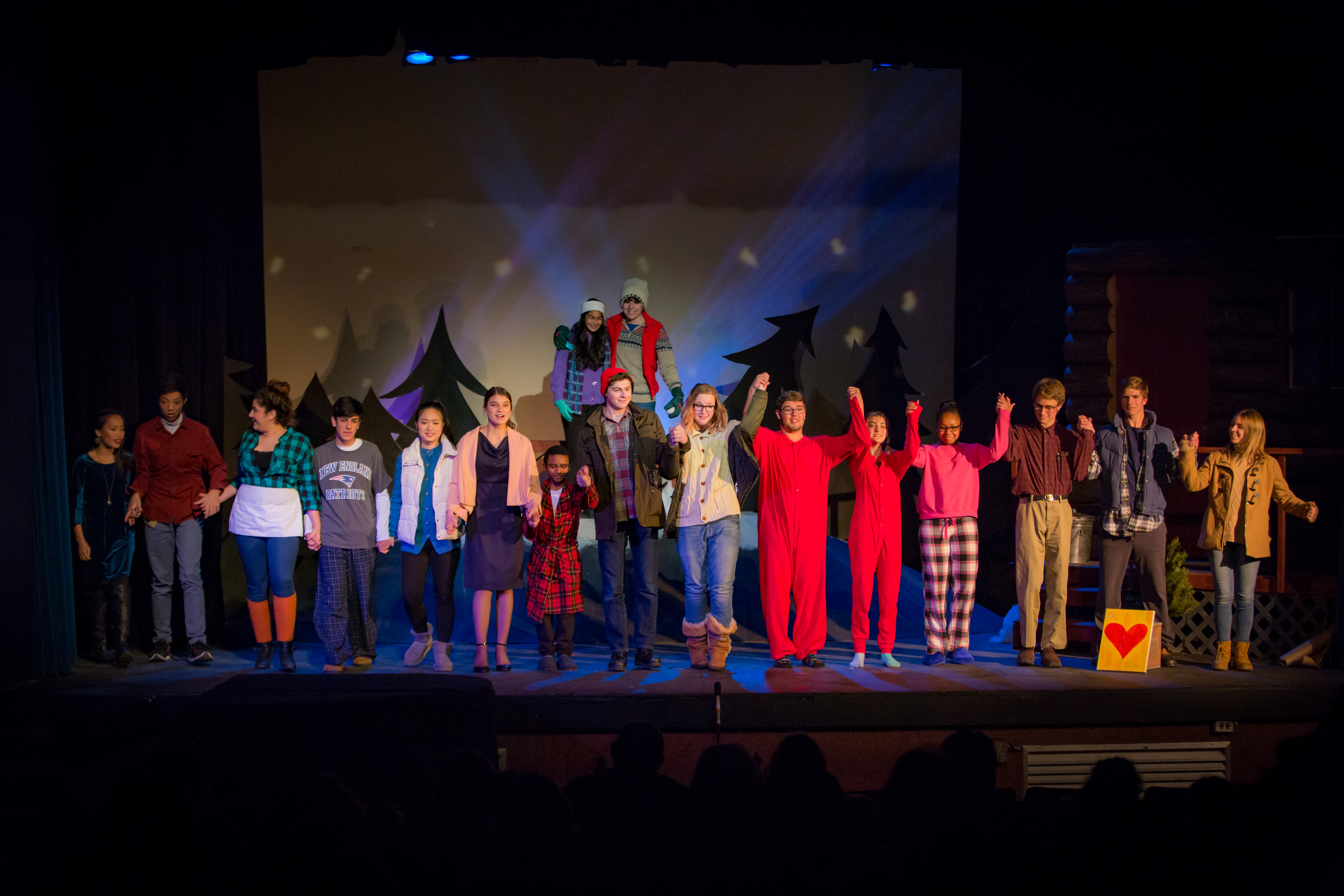 Student performances are held at the beautiful Walter Reade Jr. Theatre with seating for 250 spectators.